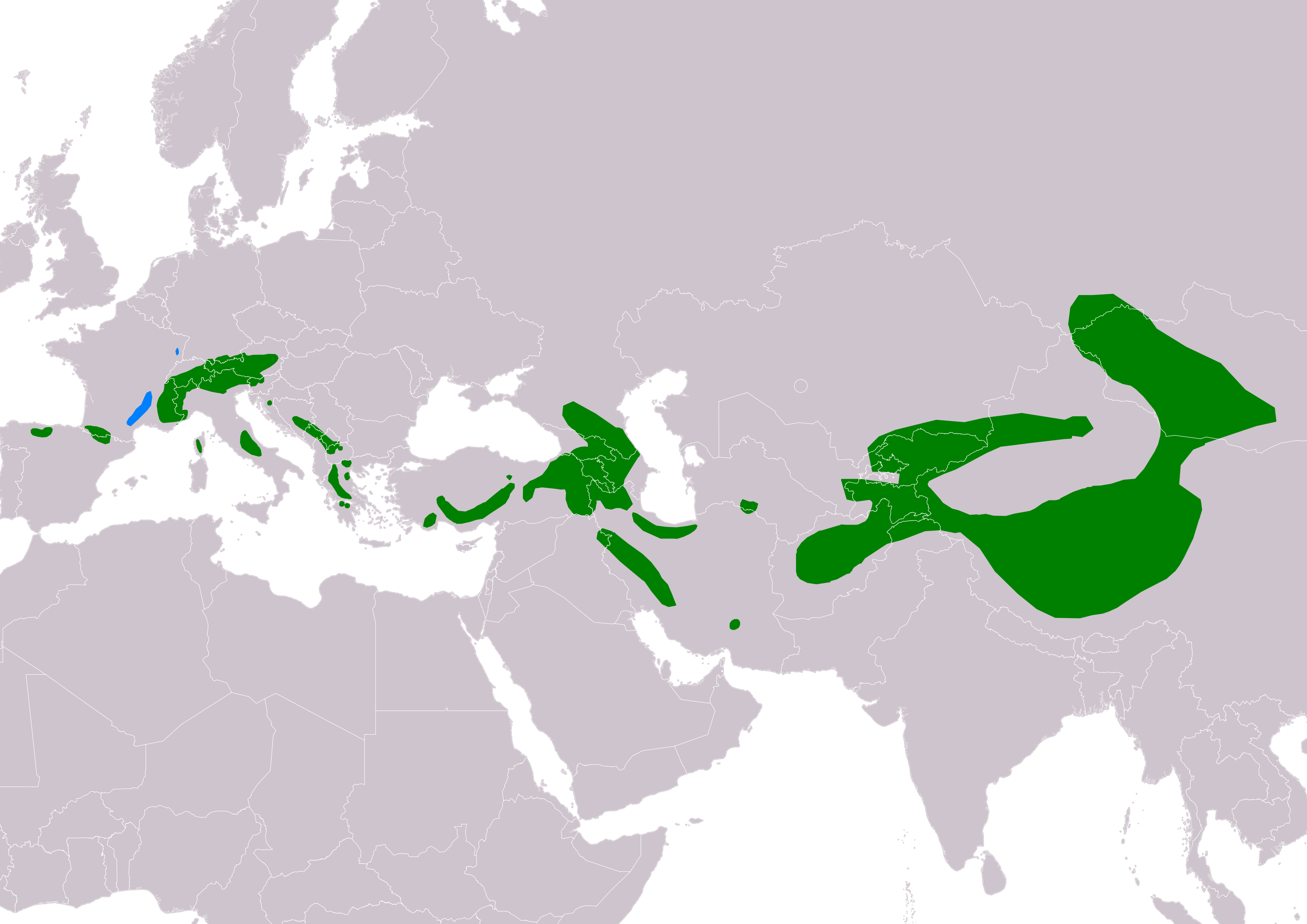 Distribution map of White-winged Snowfinch (Montifringilla nivalis) according to IUCN version 2019.3; key: Extant, resident (#008000), Extant, non-breeding (#007FFF)